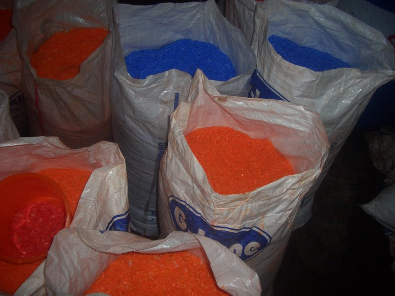 These granules are used to manufacture plastic